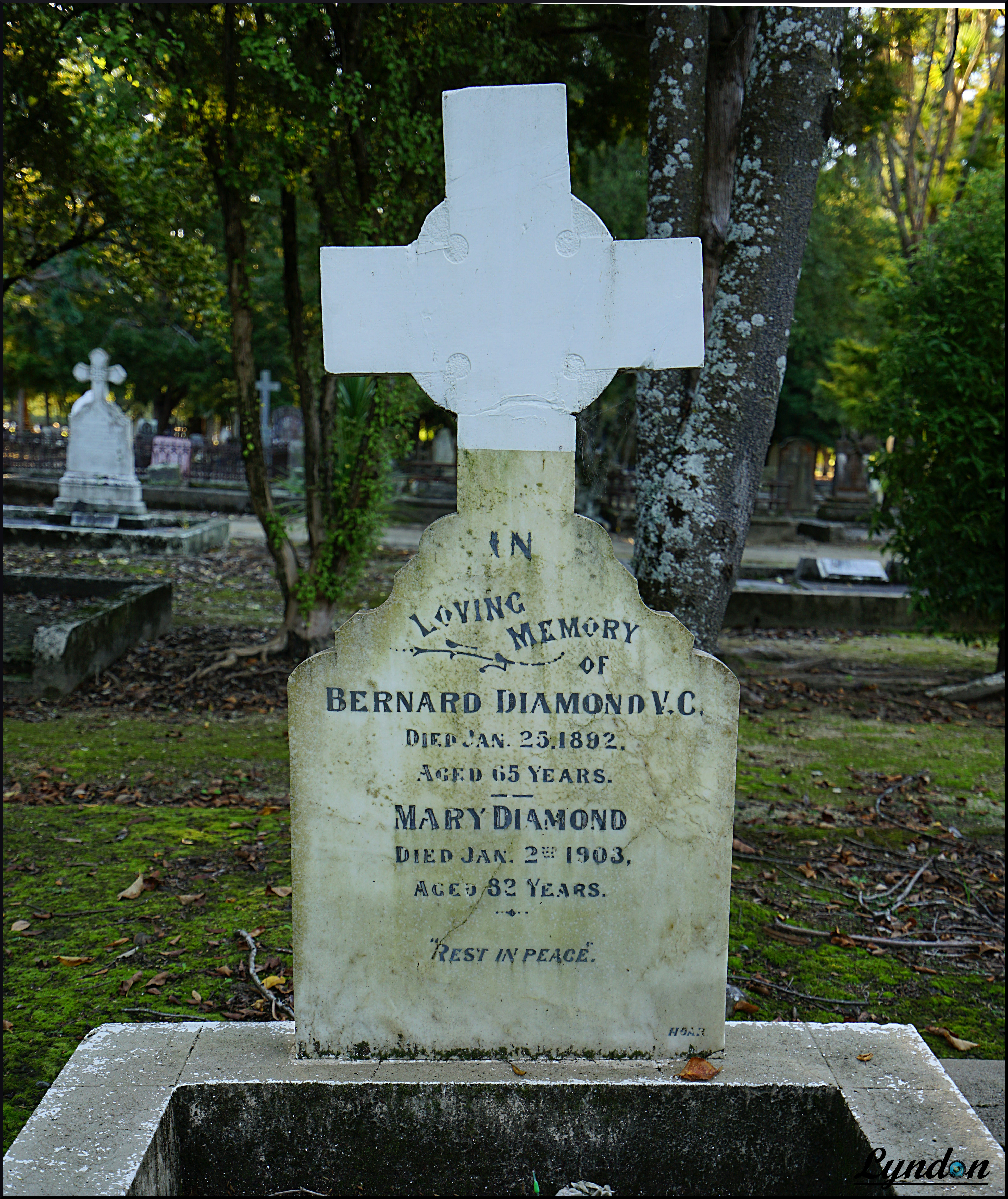 Bernard Diamond's grave site in Masterton, New Zealand following repairs to recent vandalism, 2017.